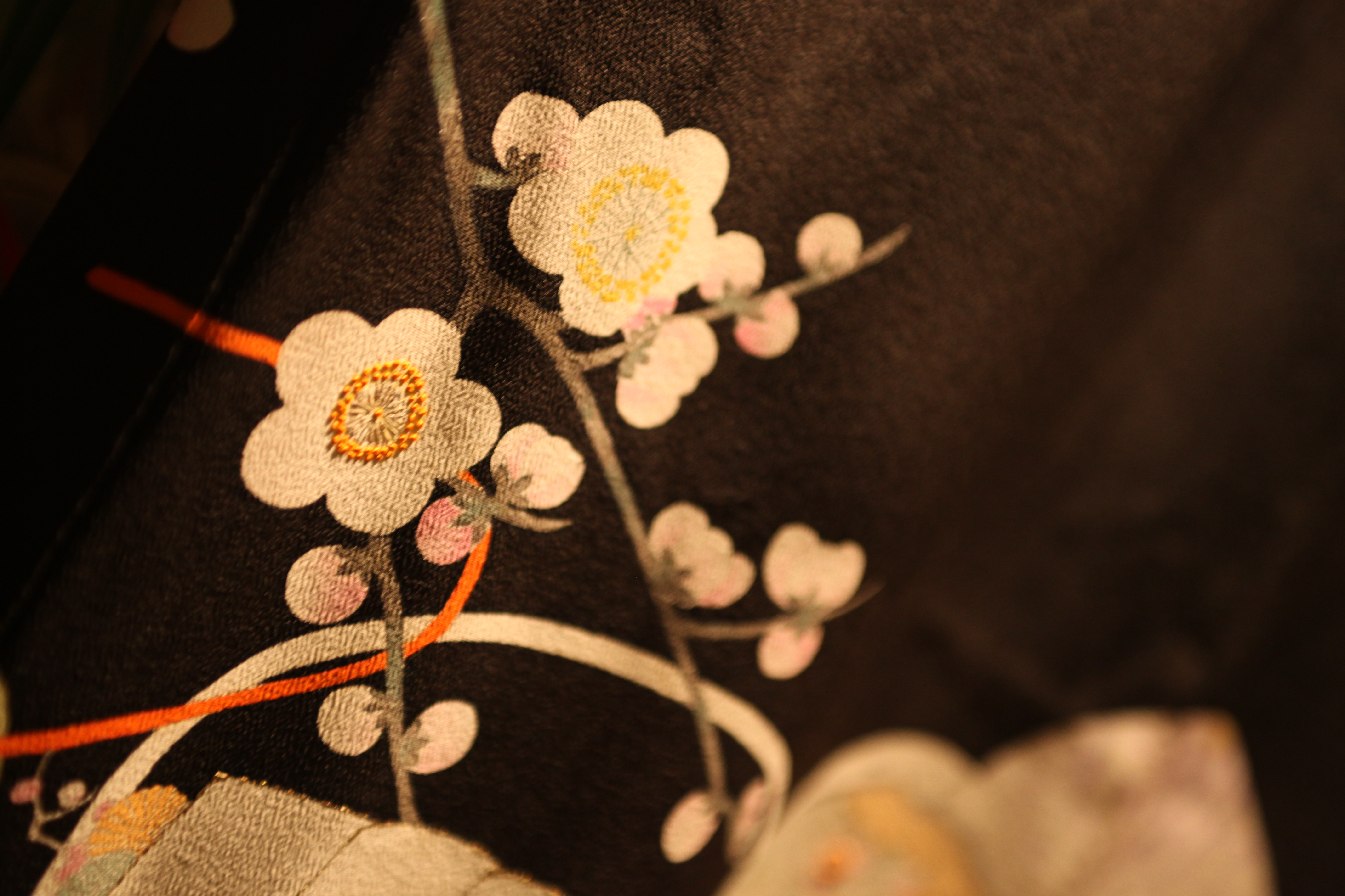 Detail of a kurotomesode (kimono for women) with five kamon, Taishō period, formal, black crape of silk (chirimen) painted by hand (yuzen), embroidery and applications in gold, 132 x 175 cm, part of the Gloria Gobbi Collection of ancient kimono, Rome; shown in an exhibition named: Shunga. Arte ed eros in Giappone nel periodo Edo at Palazzo Reale in Milan, 21 october 2009 - 3st january 2010